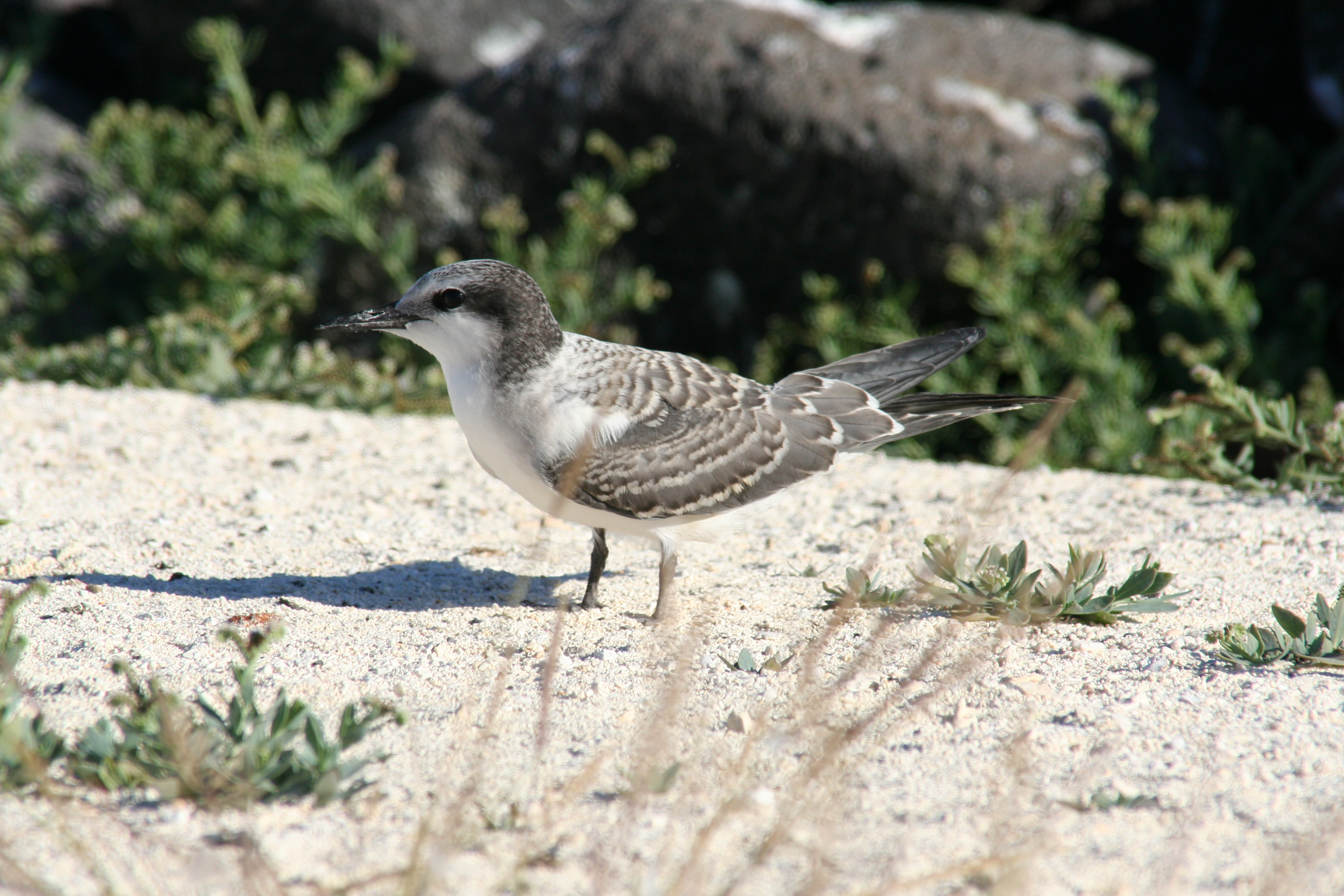 Immature Gray-backed Tern Sterna lunata